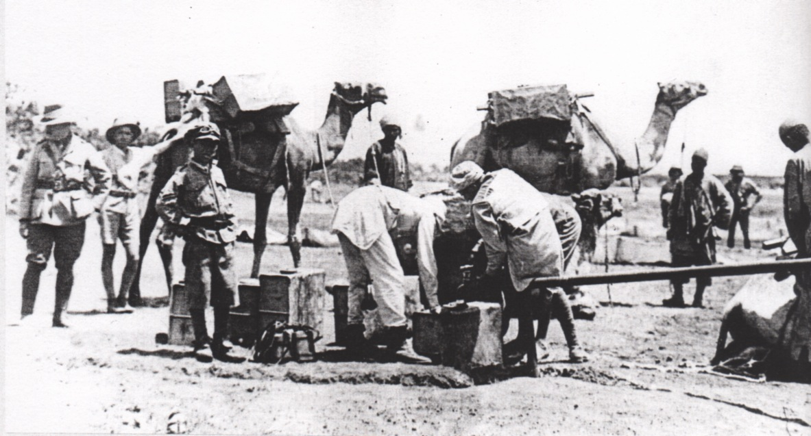 Water being filled into fantasies near Jaffa. Jerusalem Campaign, 1918.